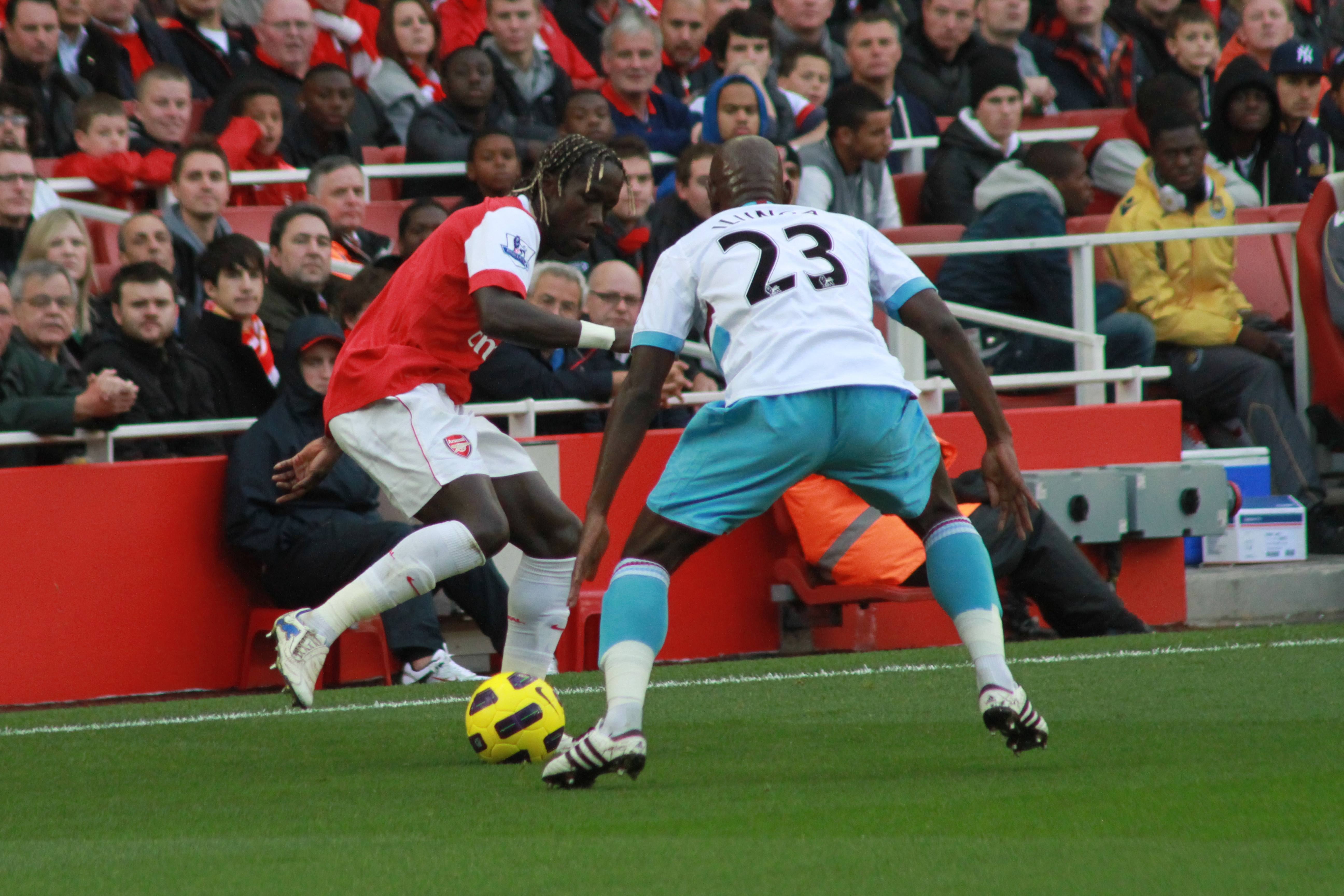 Arsenal v West Ham United at the Emirates Stadium on 30 October 2010. Arsenal won 1-0 with a late 88minute goal by Alex Song. "One - Nil to The Arsenal!"